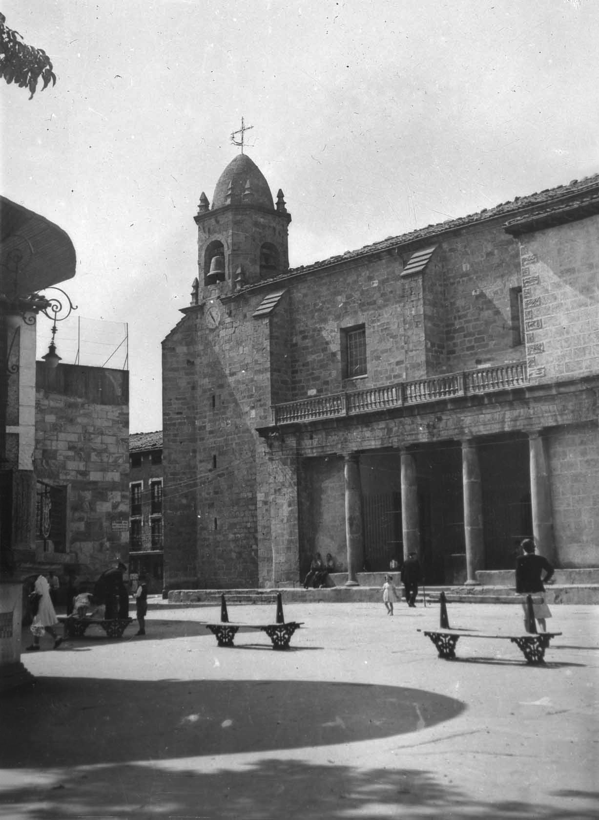 Square, church and jai-alai of Altsasu, in 1942